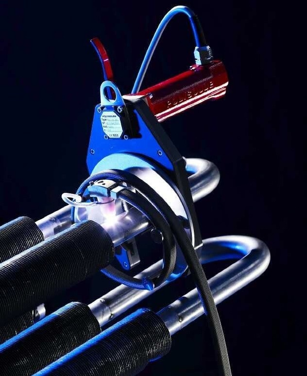 Open welding head Polysoude type. Welding of finned steel tubes and return bends in boiler industry